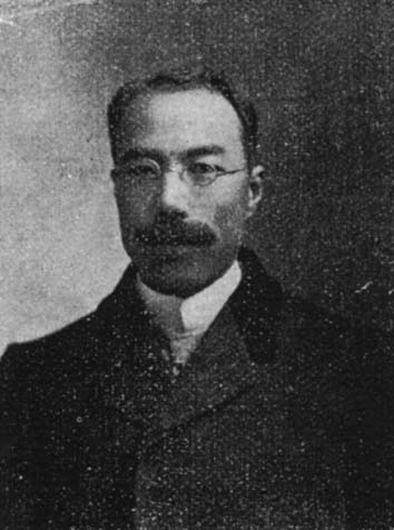 Mr. Kichisaburō Sasaki, professor of the Tokyo Higher Normal School.